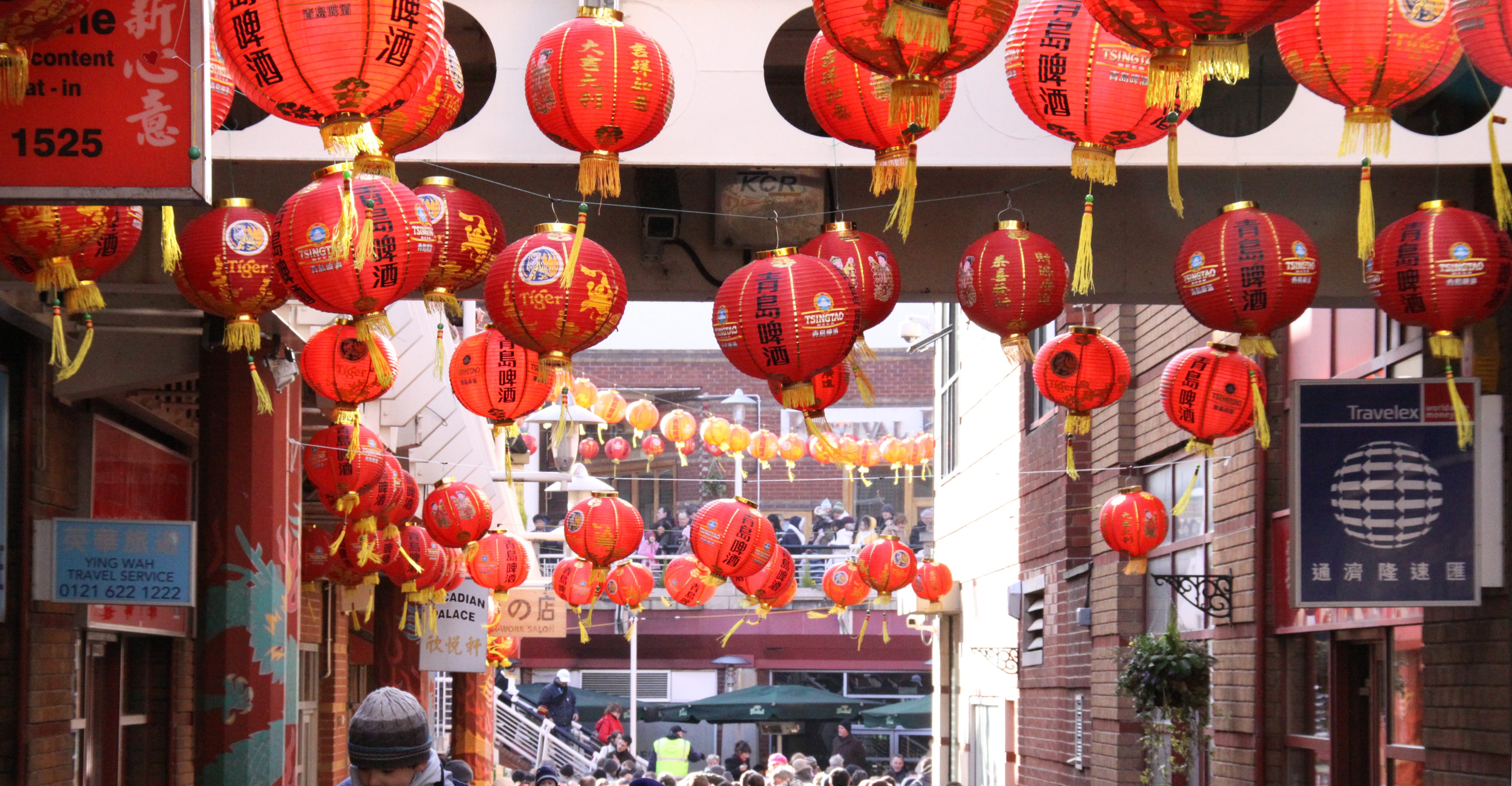 Chinese New Year